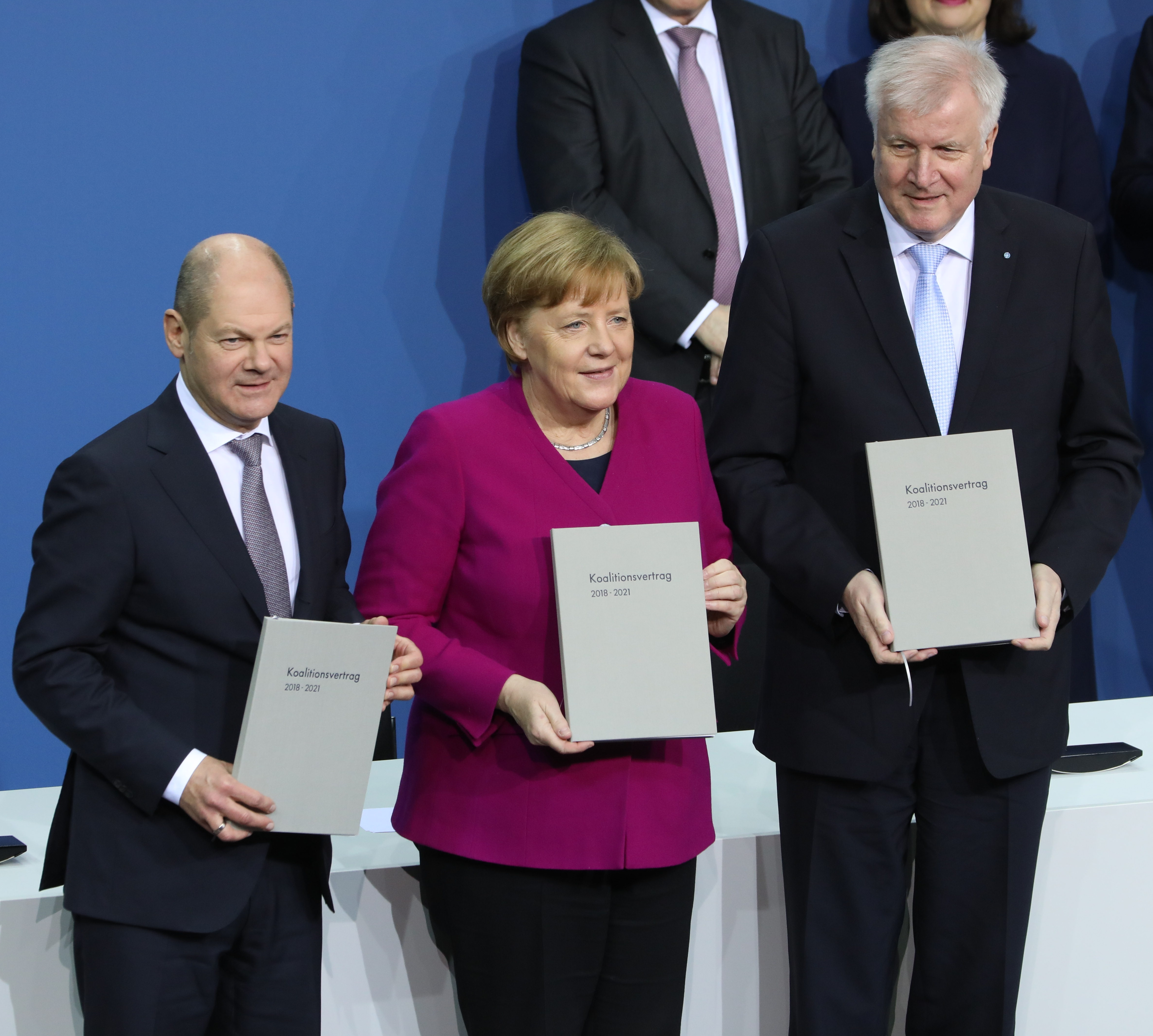 Signing of the coalition agreement for the 19th election period of the Bundestag: Olaf Scholz, Angela Merkel, Horst Seehofer